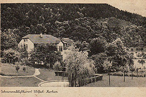 Parkinson-Klinik Wolfach